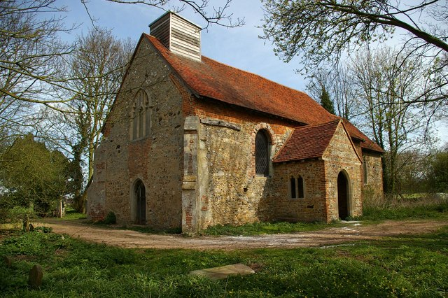 Old St Peter, near to Wickham Bishops, Essex, Great Britain. This is Old St Peter Church Wickham Bishops. It has been redundant as a Church since 1970 although it is still consecrated. It was rescued in 1975 by The Friends of Friendless Churches see Link